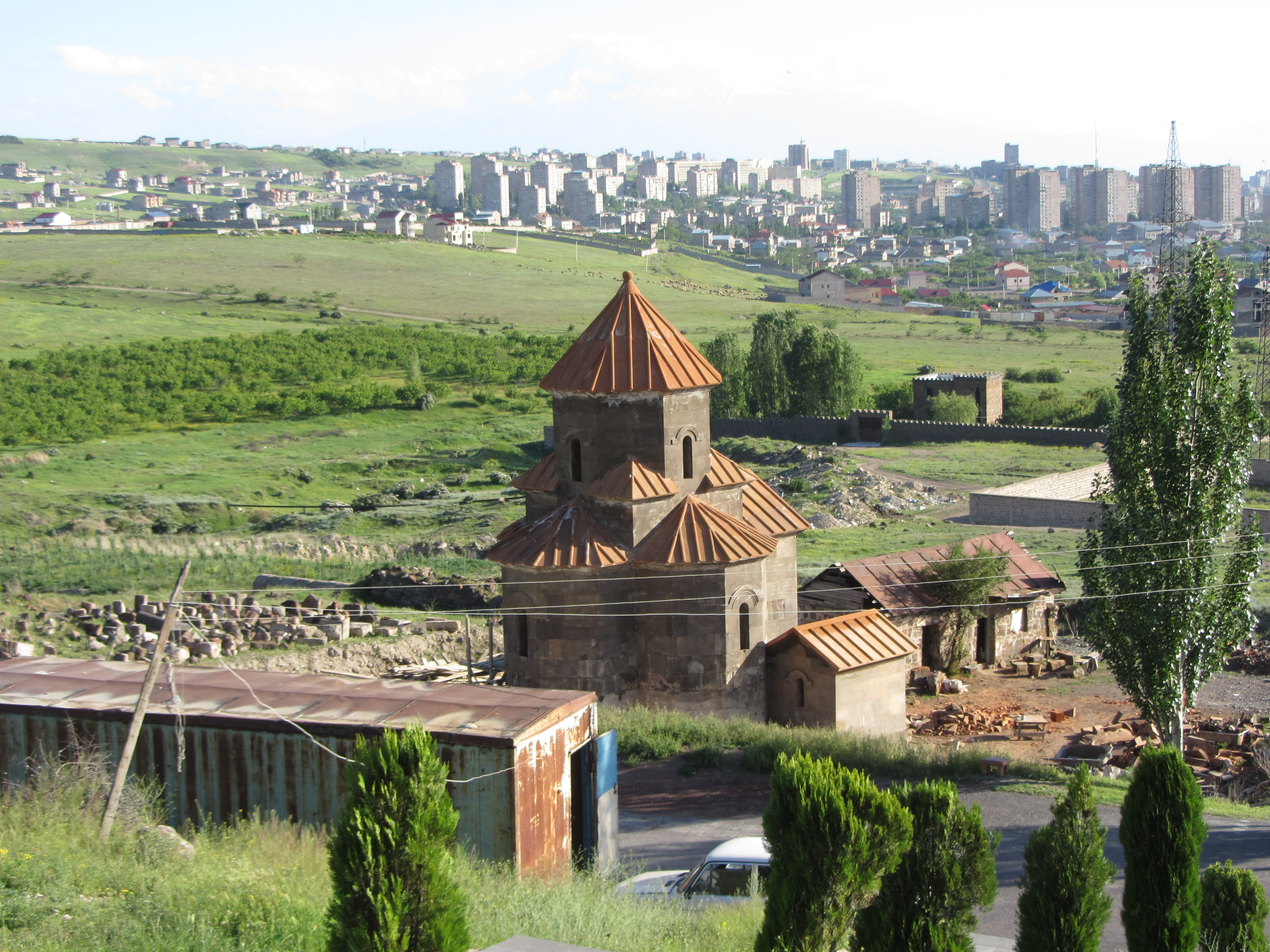 Dzagavank (Getargeli Surb Nshan) Monastery, Arinj, 7-17c.